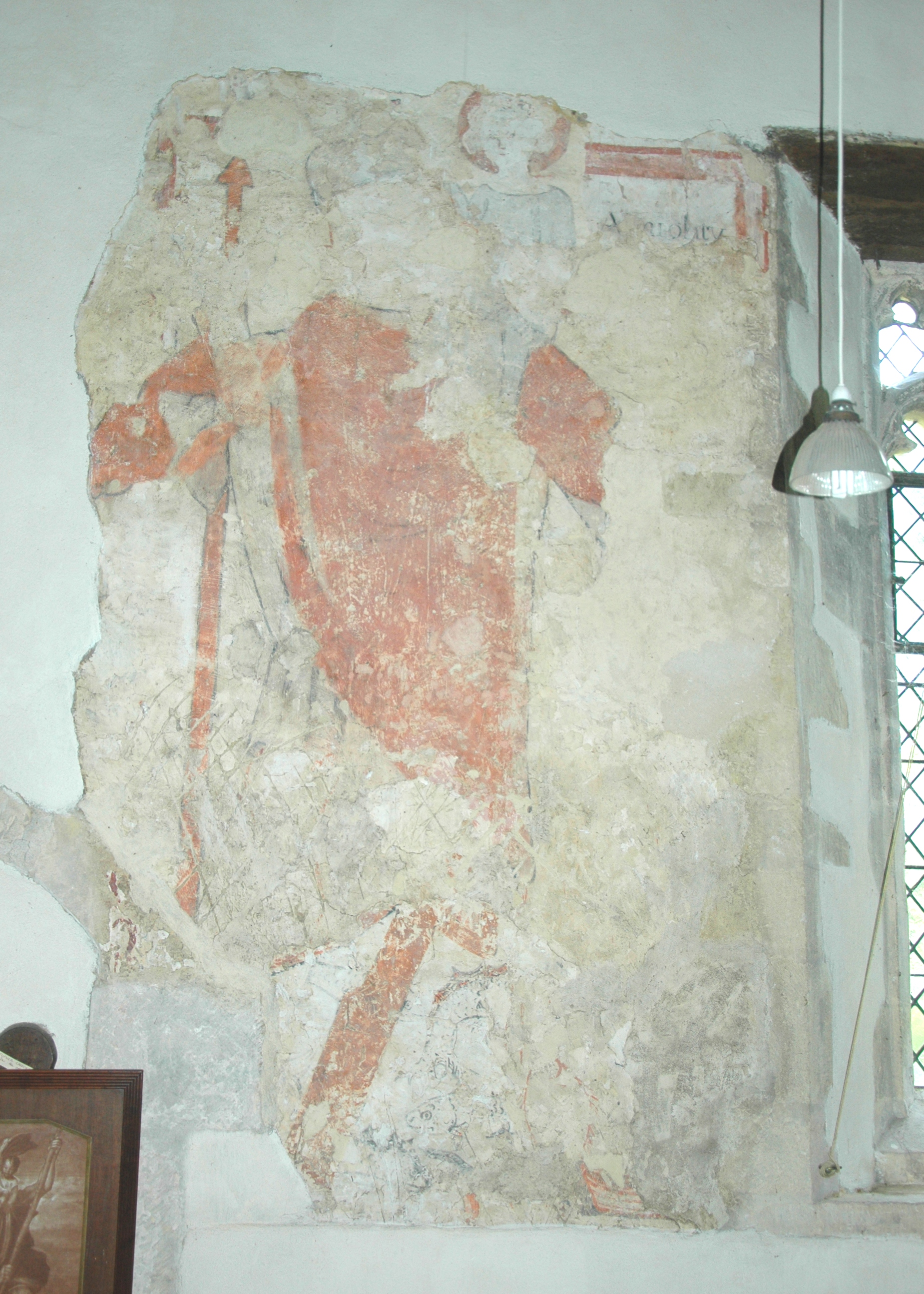 Church of England parish church of St Nicholas, Piddington, Oxfordshire: Medieval mural in the nave showing St Christopher carrying Christ across a river; probably 14th century.